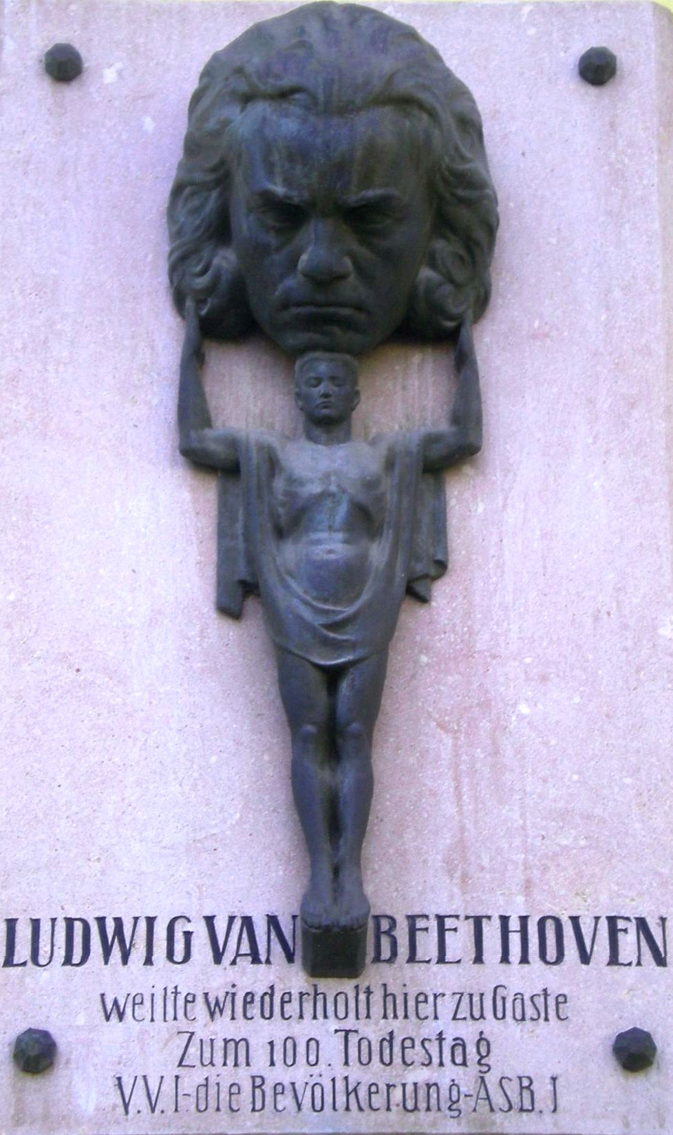 Plaque affixed to the wall of the Erdödy house (Landgut-Estate) in Jedlesee, Floridsdorf, Vienna, commemorating Beethoven's frequent visits there with Anna Maria Erdödy, his close friend and patron